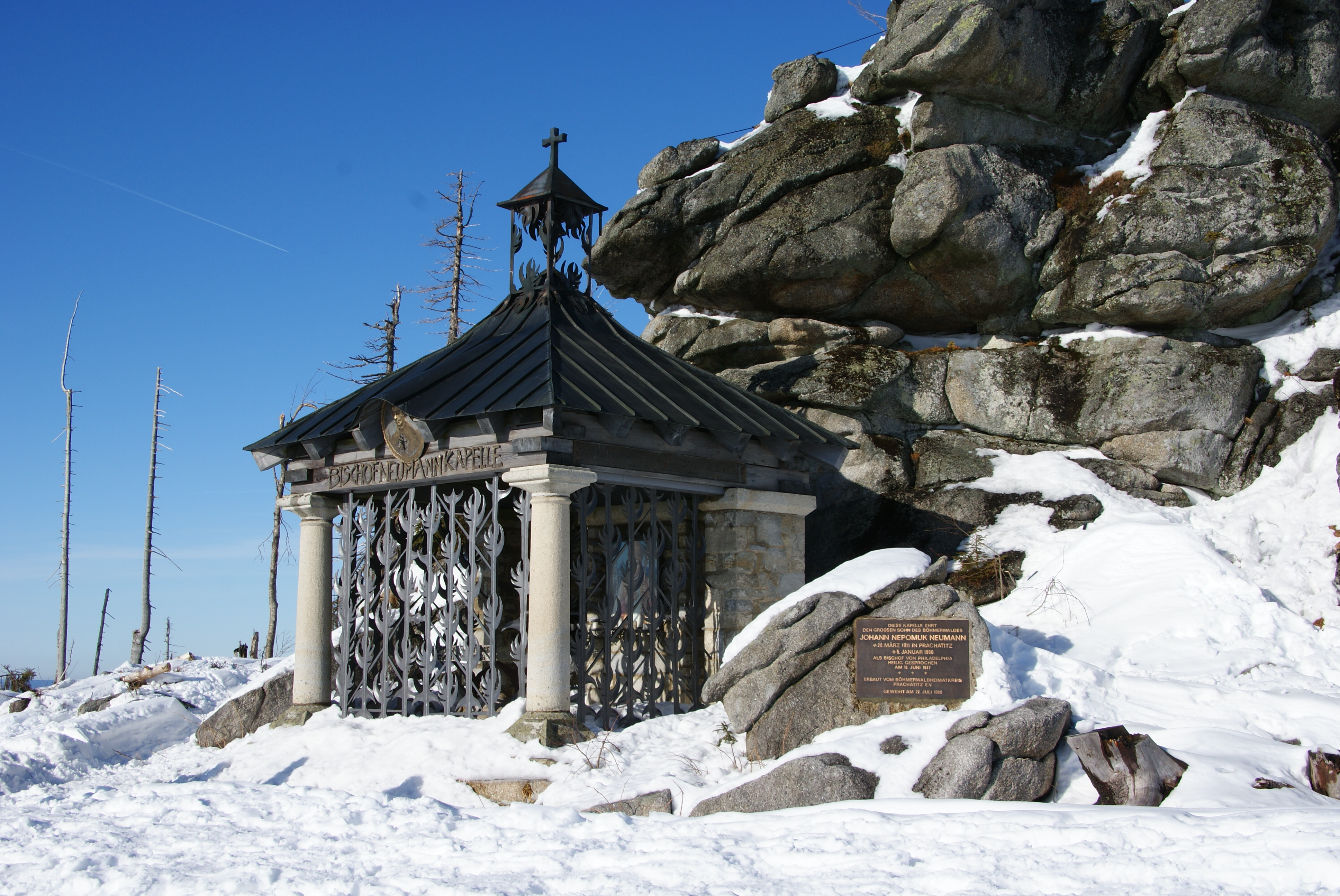 Summit region of the Dreisesselberg in the Bavarian Forest